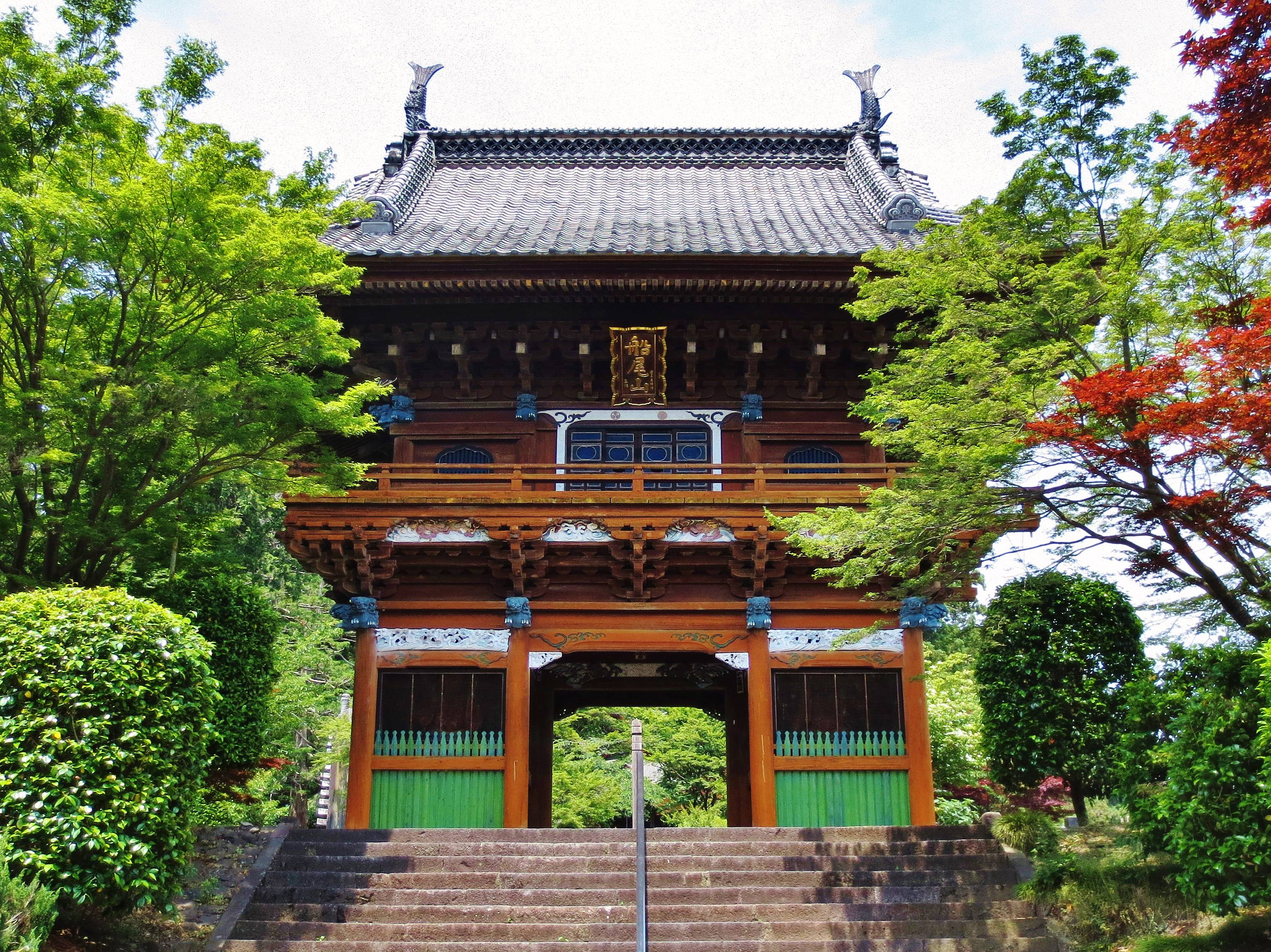 Ryutaku-ji (Shinto).